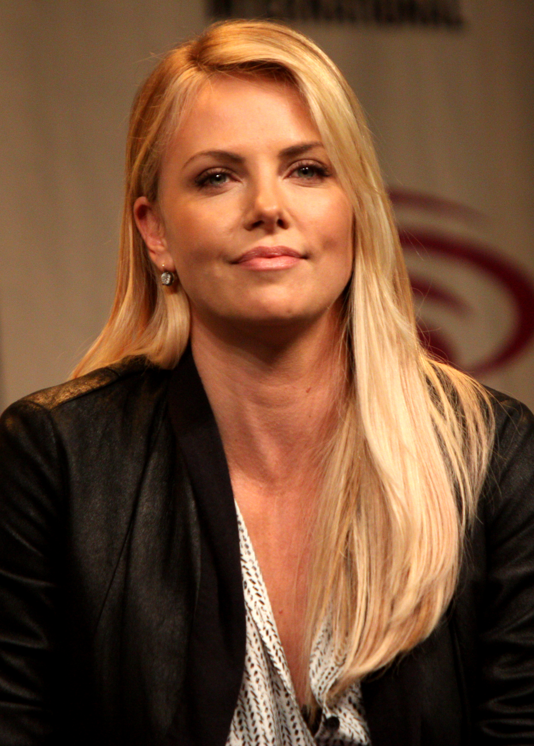 Charlize Theron speaking at Wondercon 2012 in Anaheim, California on March 17, 2012.